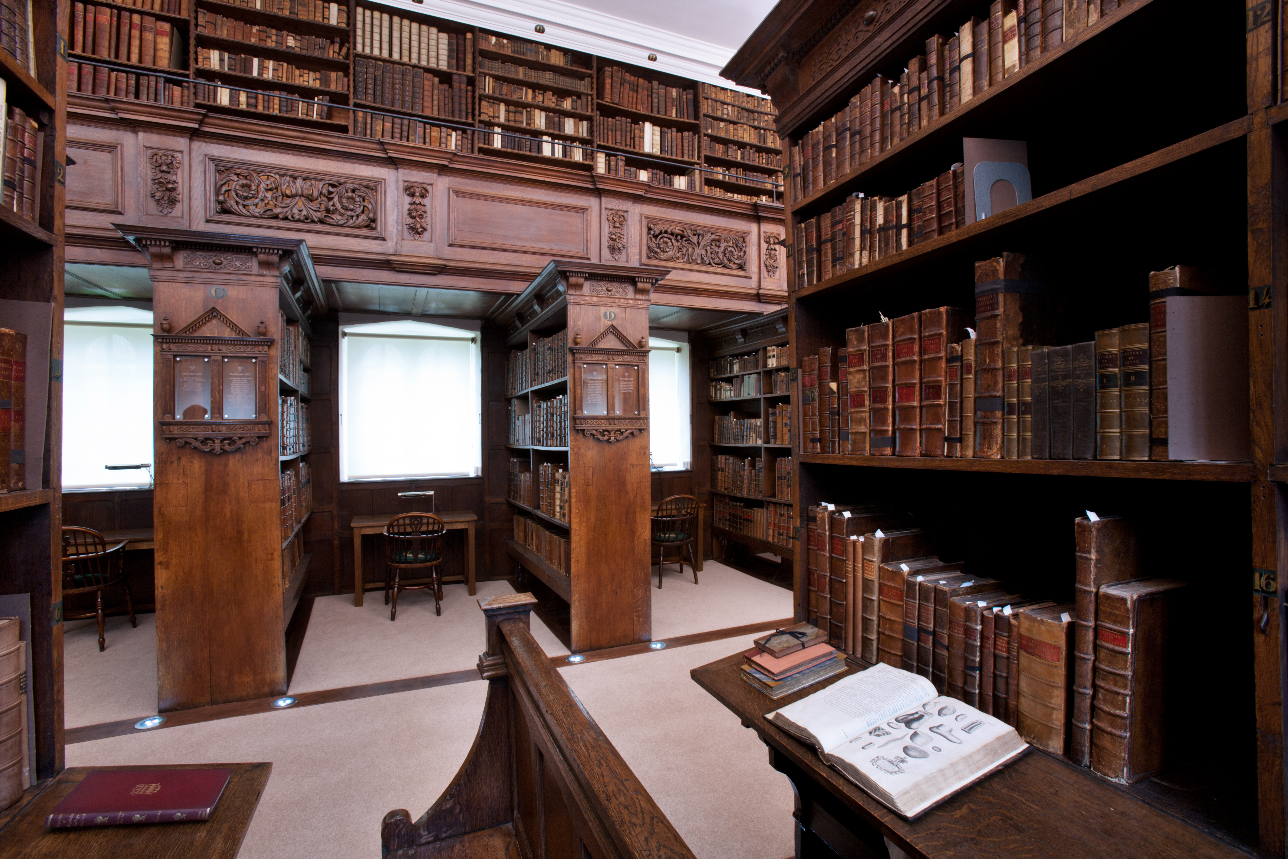 The Fellows' Library of Jesus College, Oxford, UK.